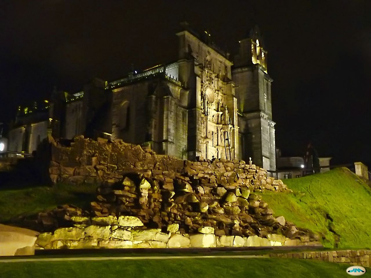 Pontevedra-Antigua muralla y fachada de Santa María.